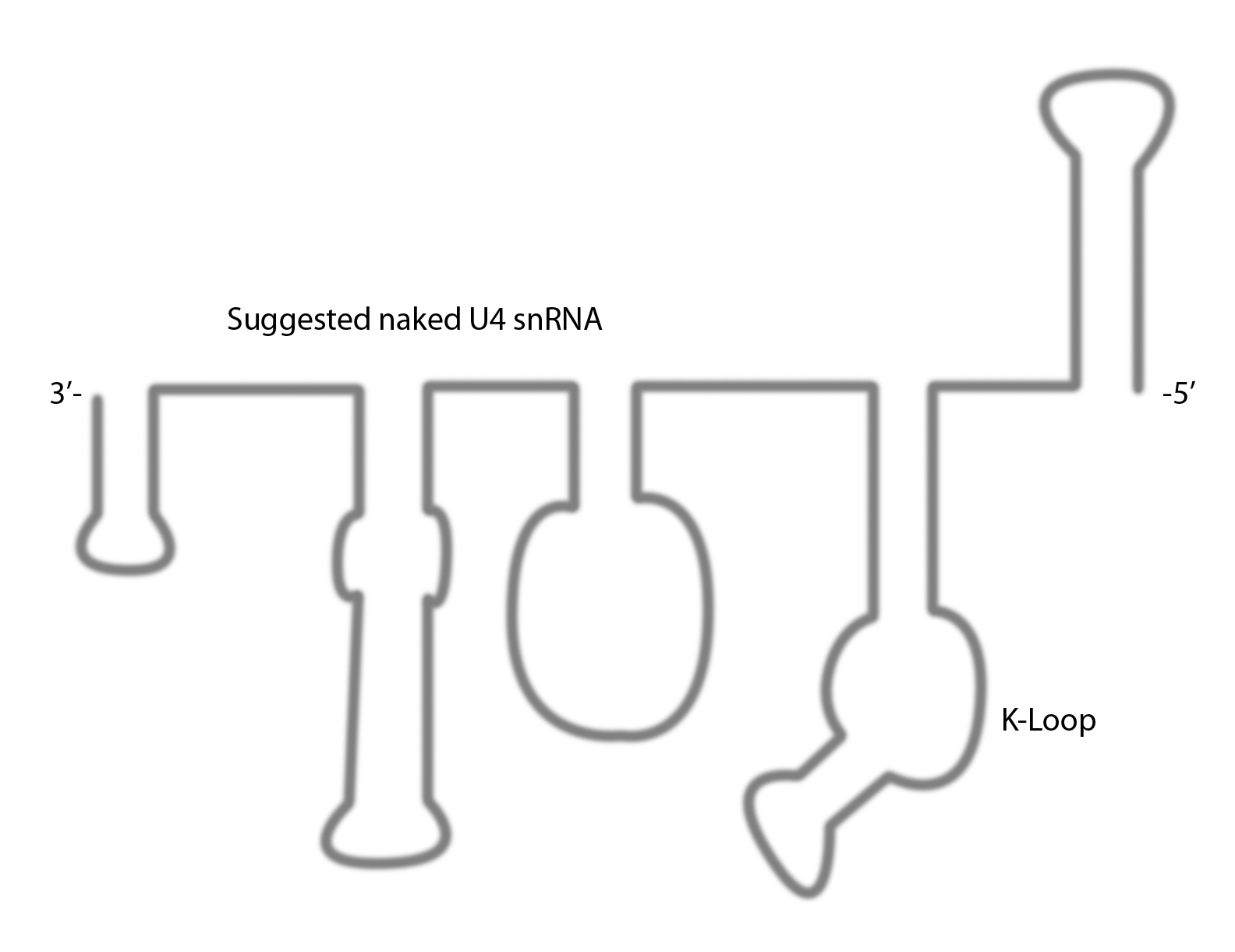 A placehold U4 until I can work out a nicer looking version